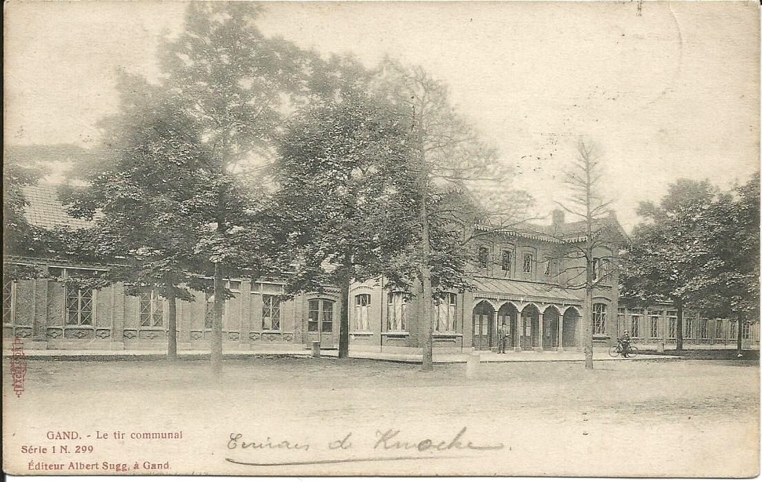 de schietbaan voor de oorlog.